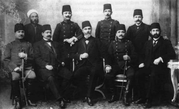 Proclamation of the Second Constitutional Era.